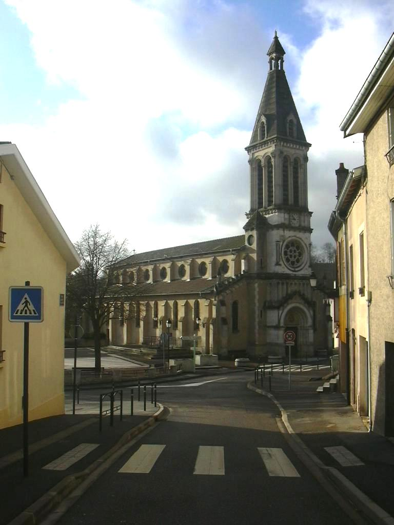 This picture shows Saint-Fiacre church at Villers-lès-Nancy.